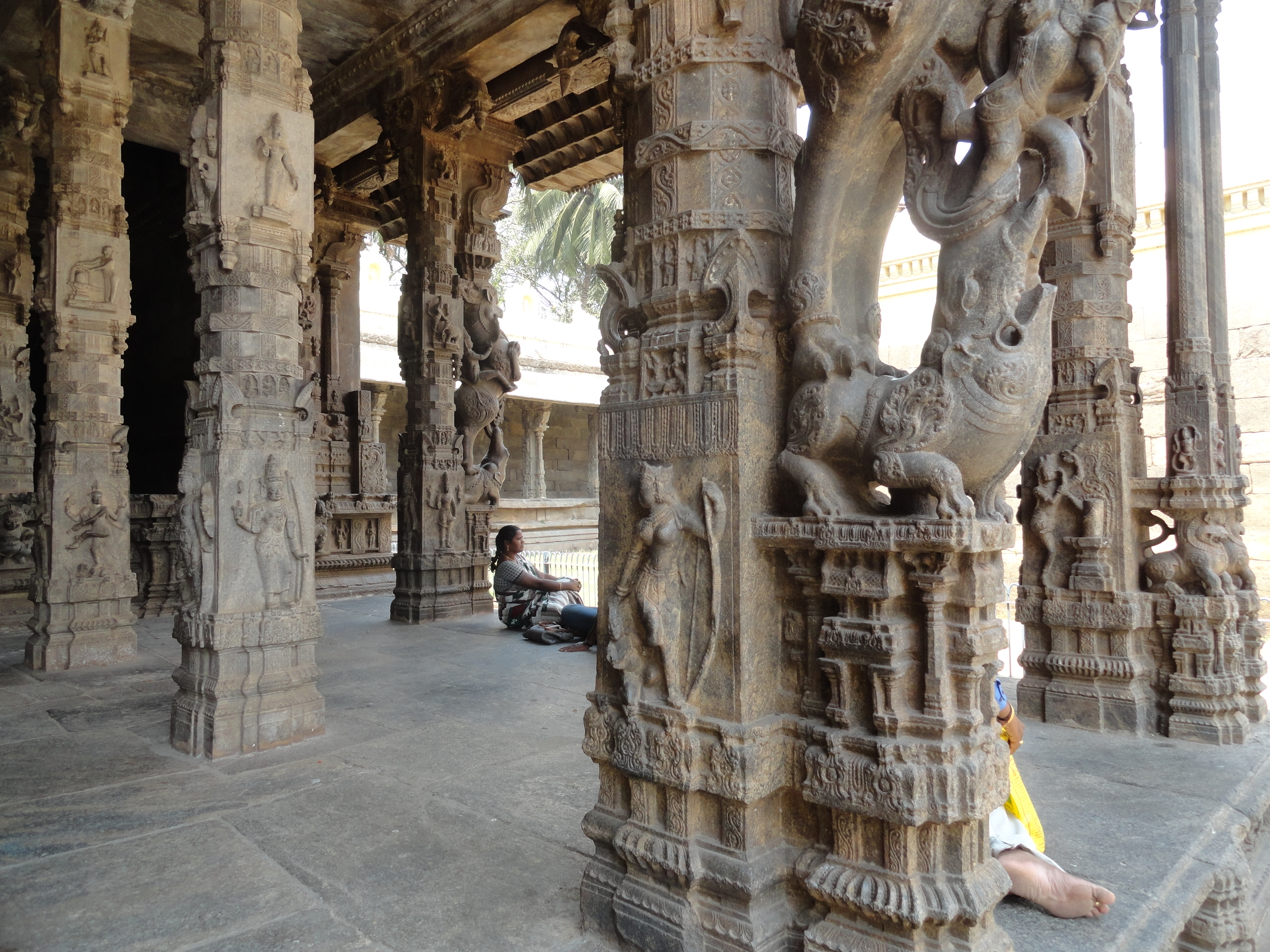 a part of Kalyana mandapam at vellore fort temple.